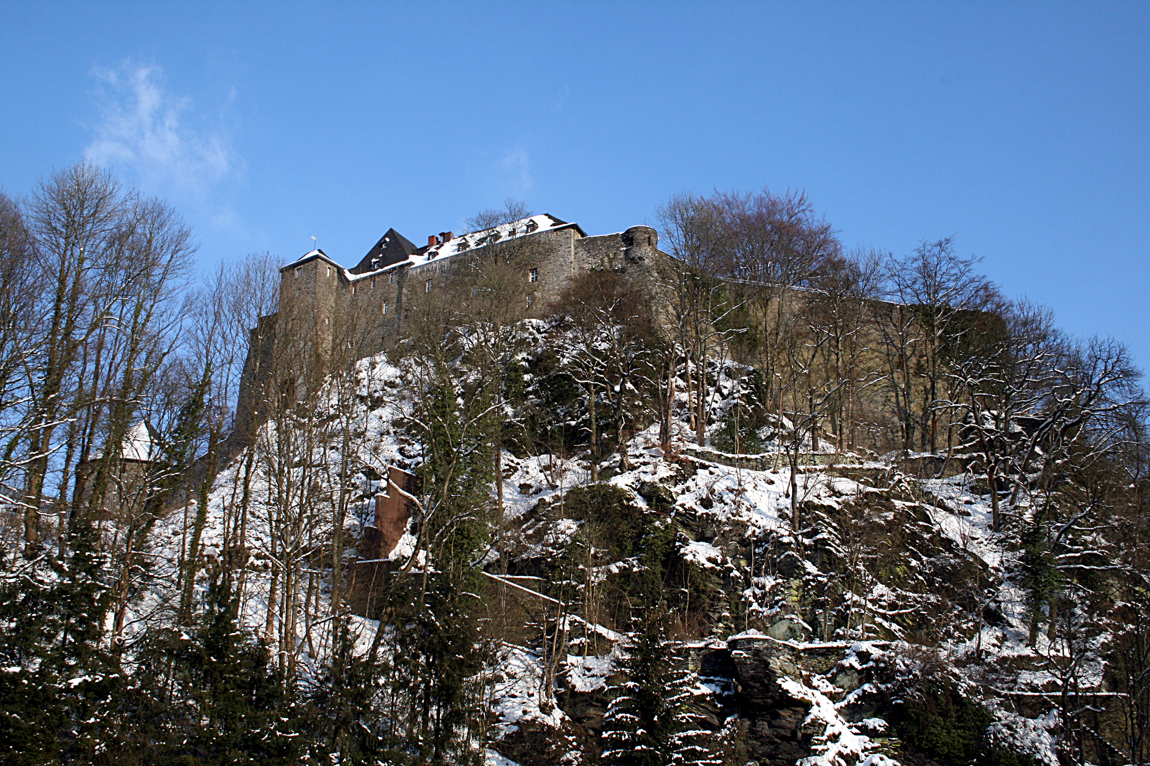 Monschau (Germany), the eastern walls of the castle of the Dukes of Jülich (XIIIth century).